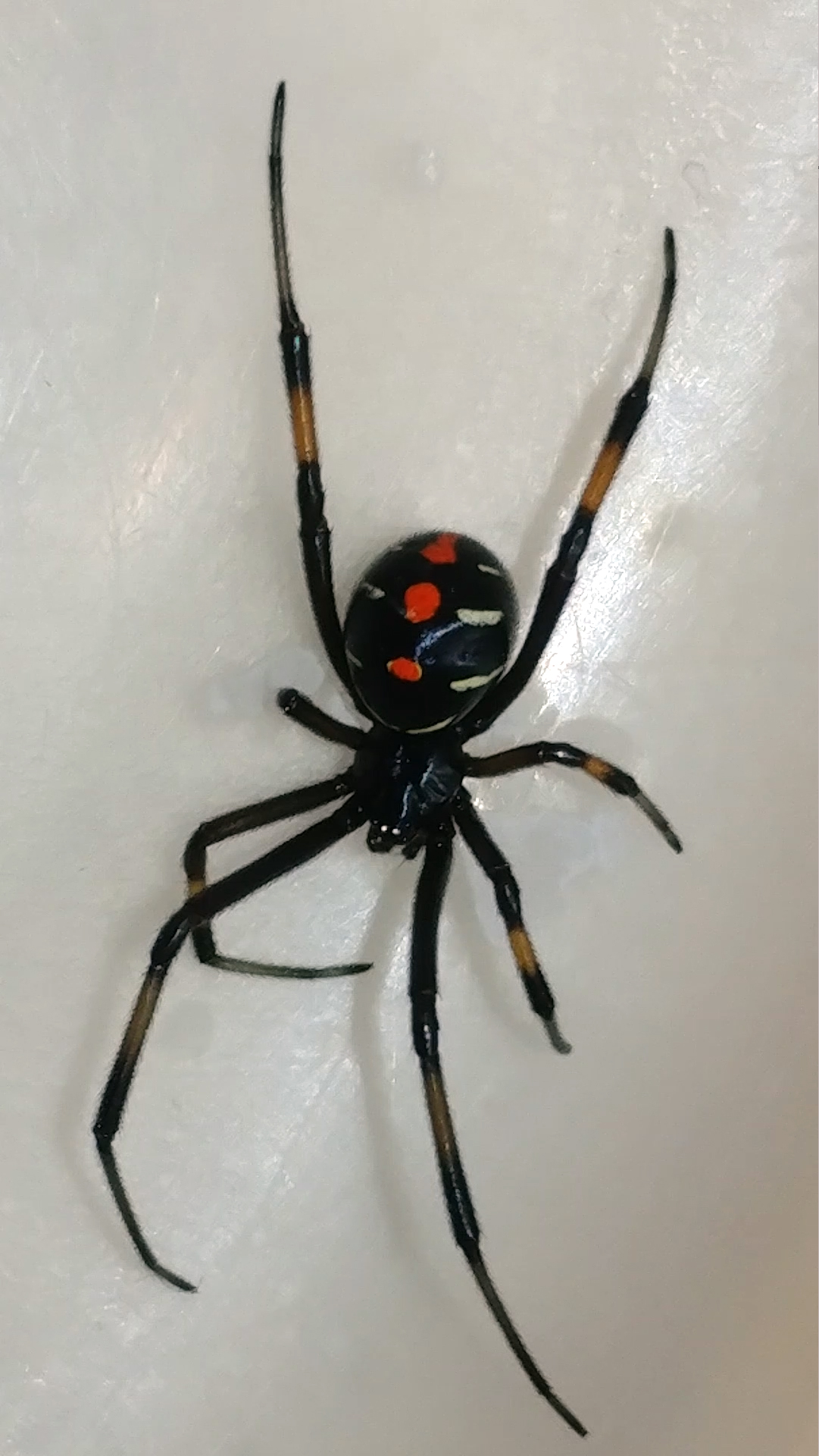 Black-widow-red-spots-yellow-legs; She was living in the end of my garden hose. Took this pic with my LG V20 phone, cleaned it up slightly in Photoshop. -- That's a darker form brown widow. They have straw colored stripes on their legs. Red dots sometimes appear on their upper abdomens, but they're often much lighter in color, a light brown color. However, they can be quite variable in color and some are much darker.